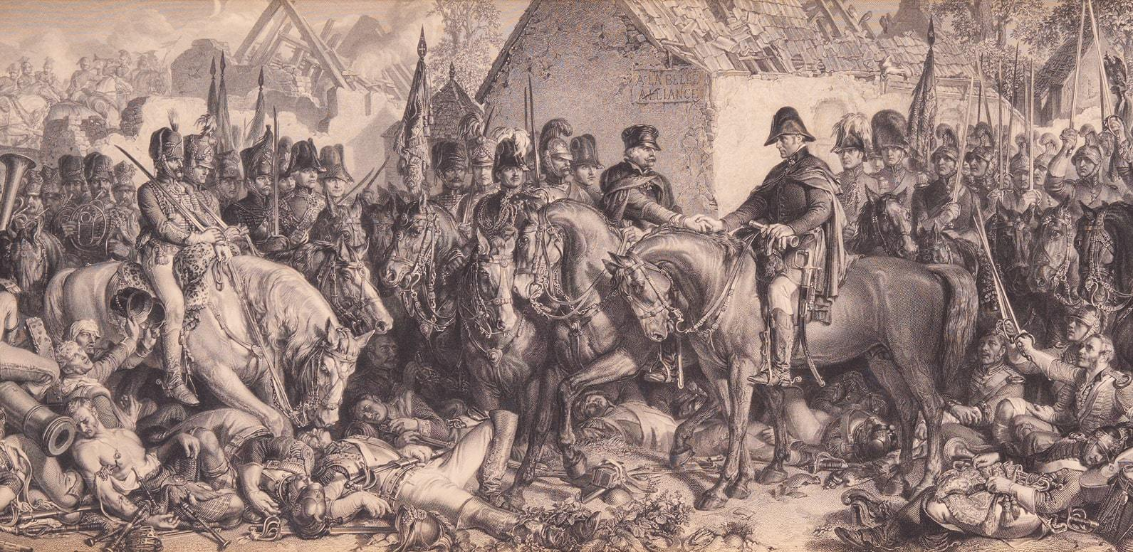 Wellington and Blucher Meeting After the Battle of Waterloo, Army & Navy Club, Accession number: 1980.02